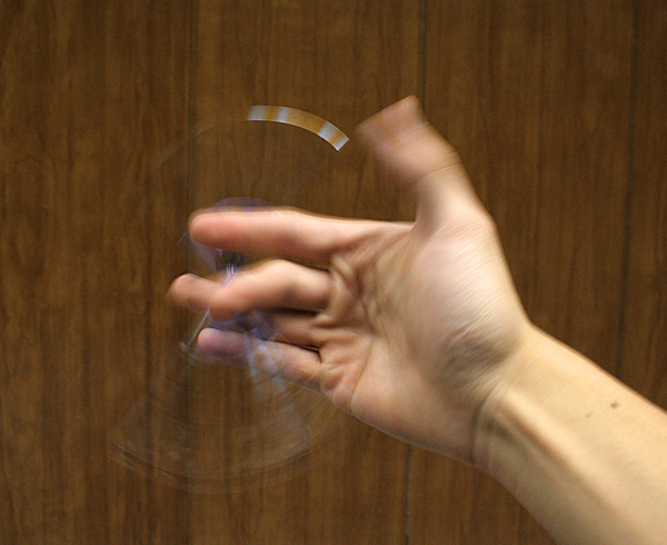 Description: The Sonic. This Fundamental is the most commonly used trick in combos and freestyles because it allows easy transfer of the pen between the fingers, and looks much better than a fingerpass.